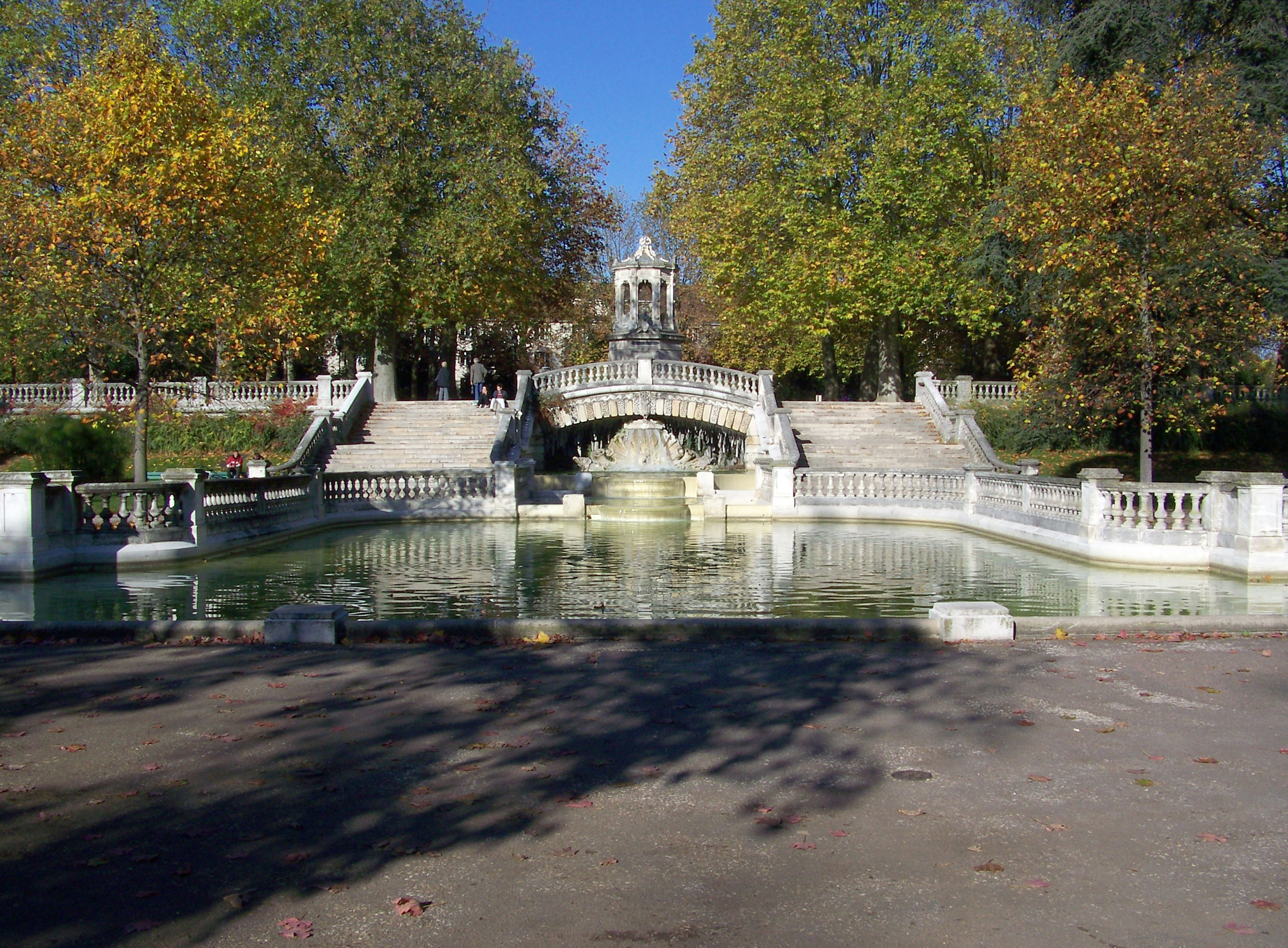 Park Darcy in Dijon.